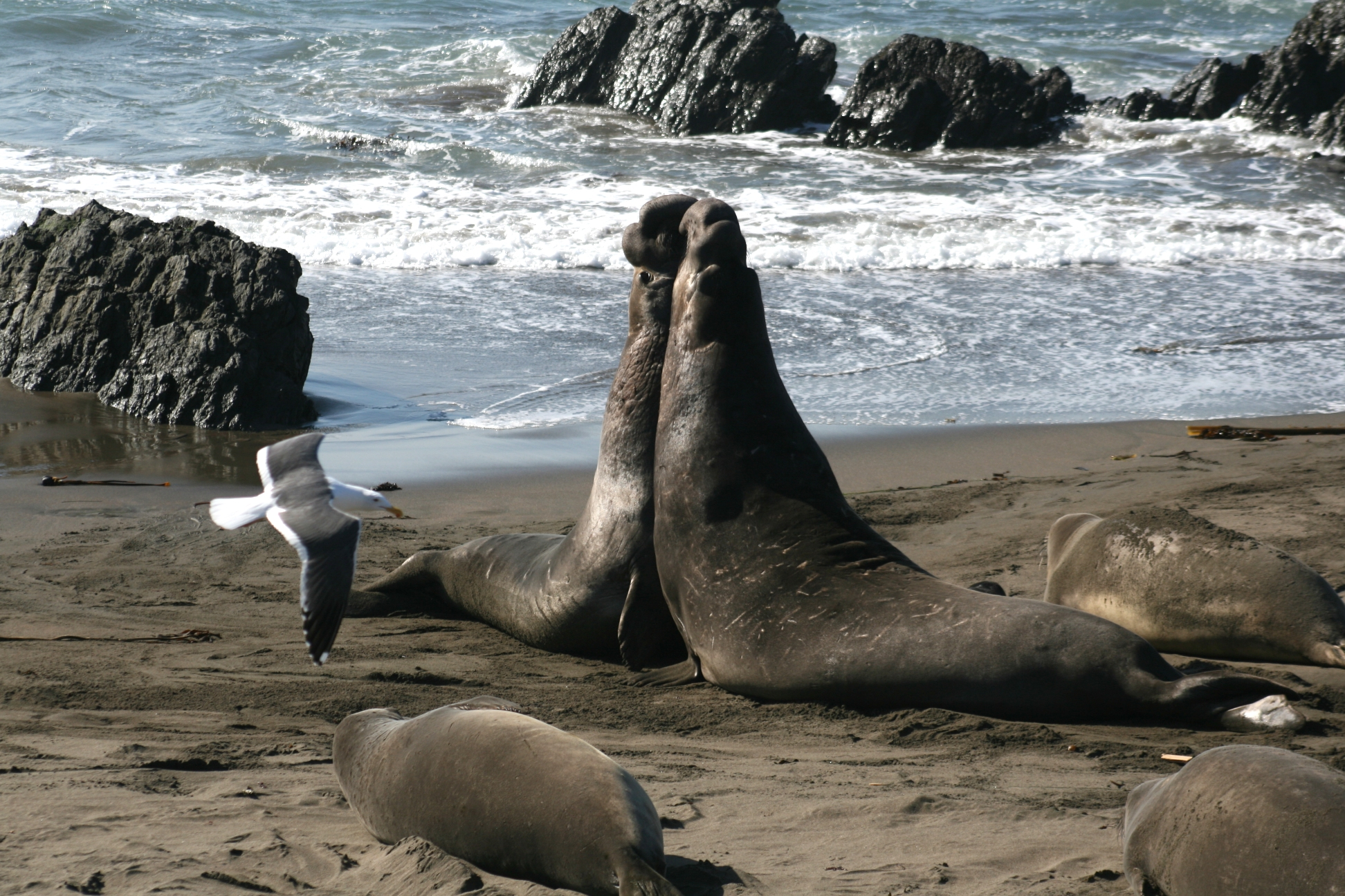 Males Northern Elephant Seals,Mirounga angustirostris ,California